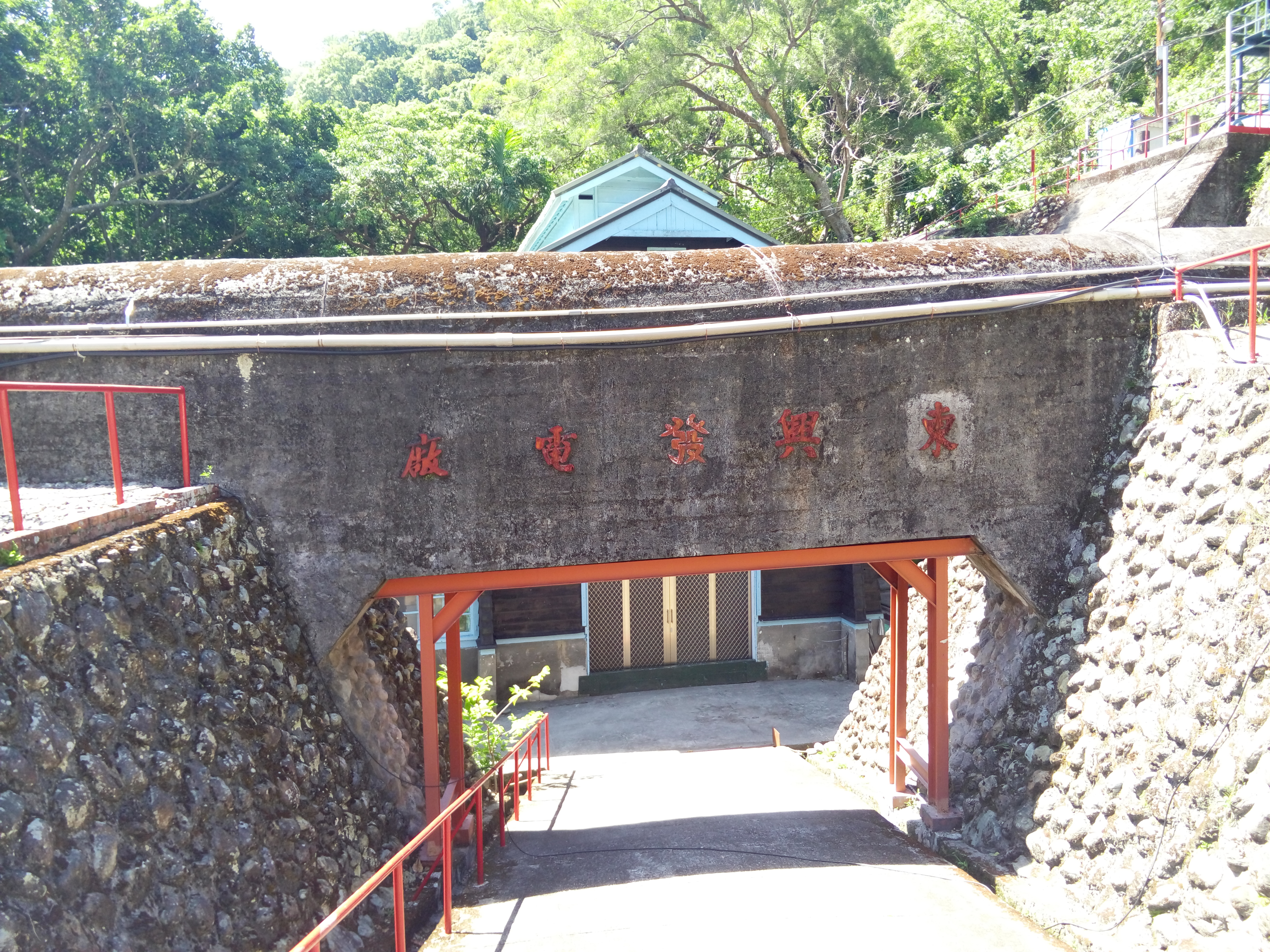 Tong-Xin Hydroelectric power plant Title